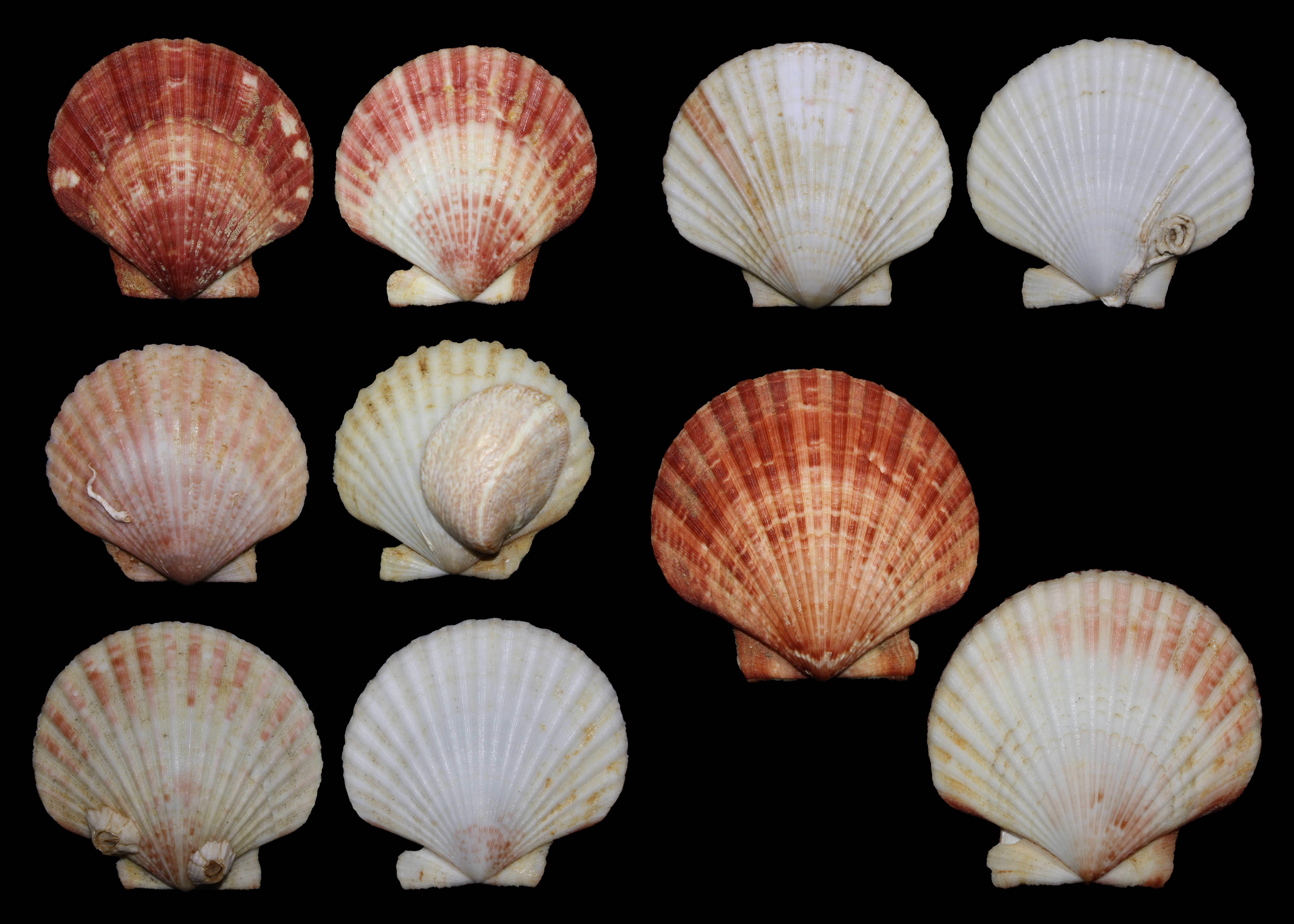 Aequipecten/Chlamys opercularis Linnaeus, 1758. North Sea. width 5.5-7.5 cm. From local fishermen, Amsterdam, Holland, March 1993. One with Crepidula fornicata Linnaeus, 1758. Note that both the Crepidula and the barnacles adopt the fluted pattern of the 'Chlamys. Also Vermetus sp. attached.